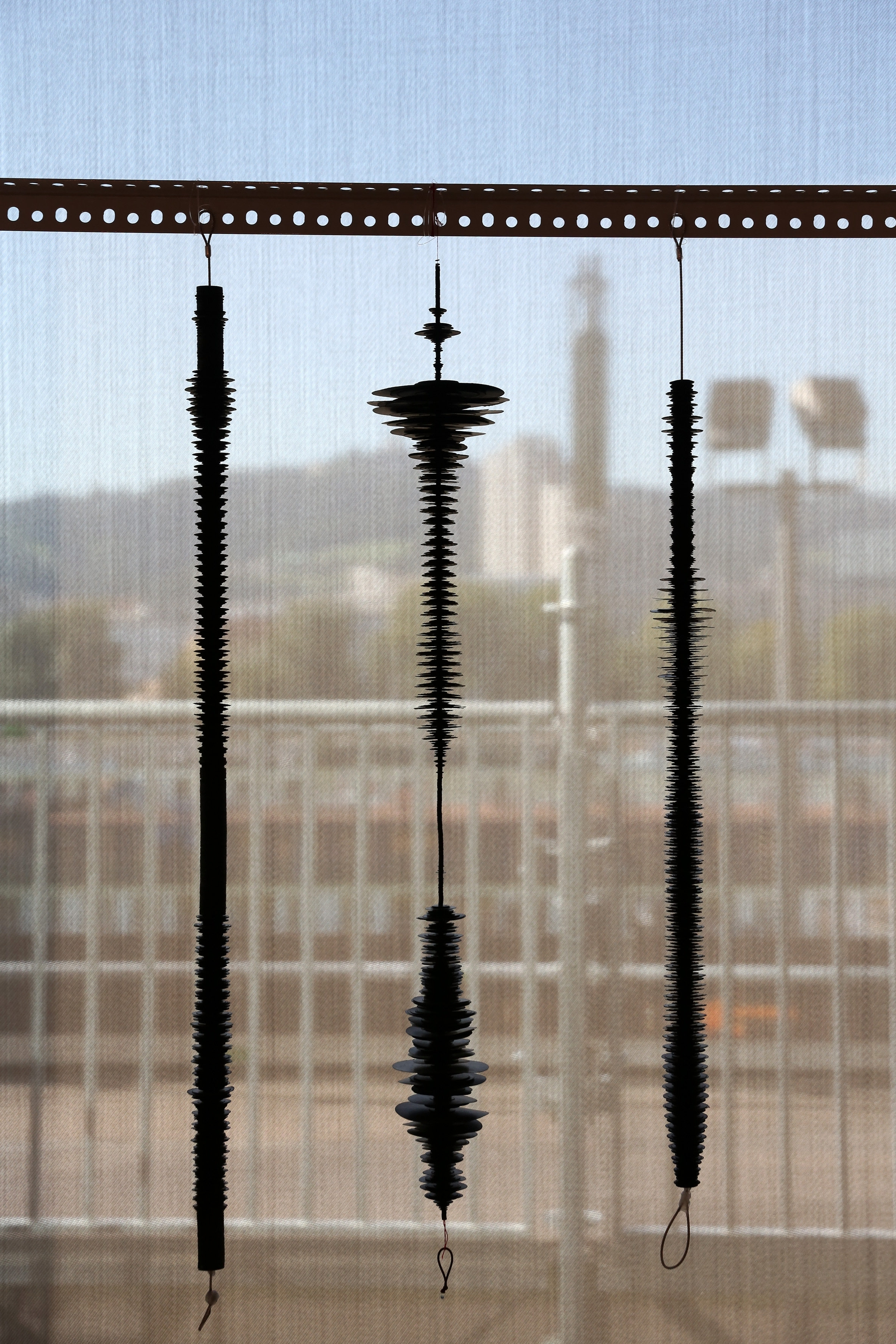 Wave Form Media, three-dimensional reproductions of sound waves - Ars Electronica 2013 at Brucknerhaus, Linz, Upper Austria.